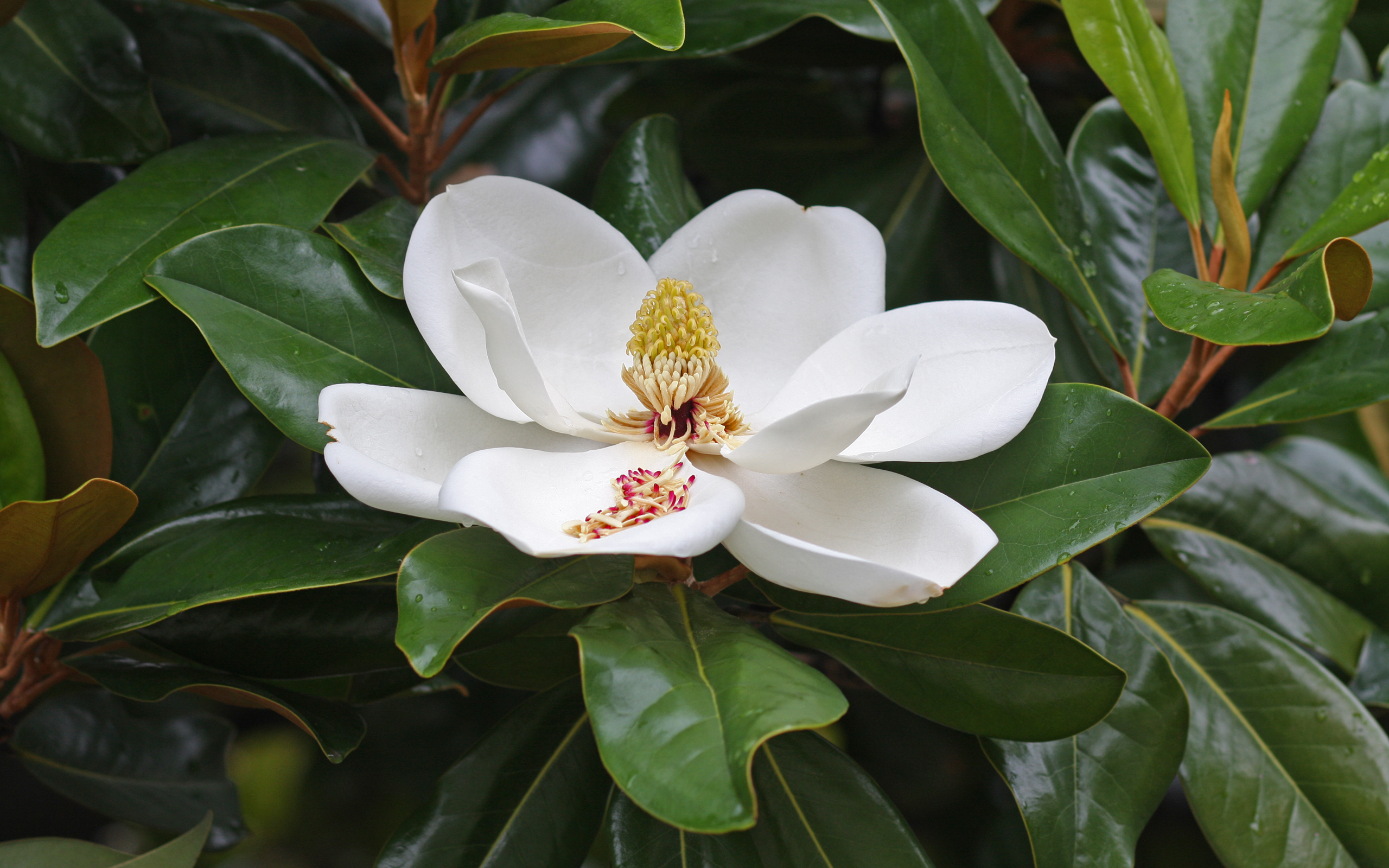 White Magnolia grandiflora (southern magnolia) flower on tree, Duke University campus, Durham, North Carolina, USA.